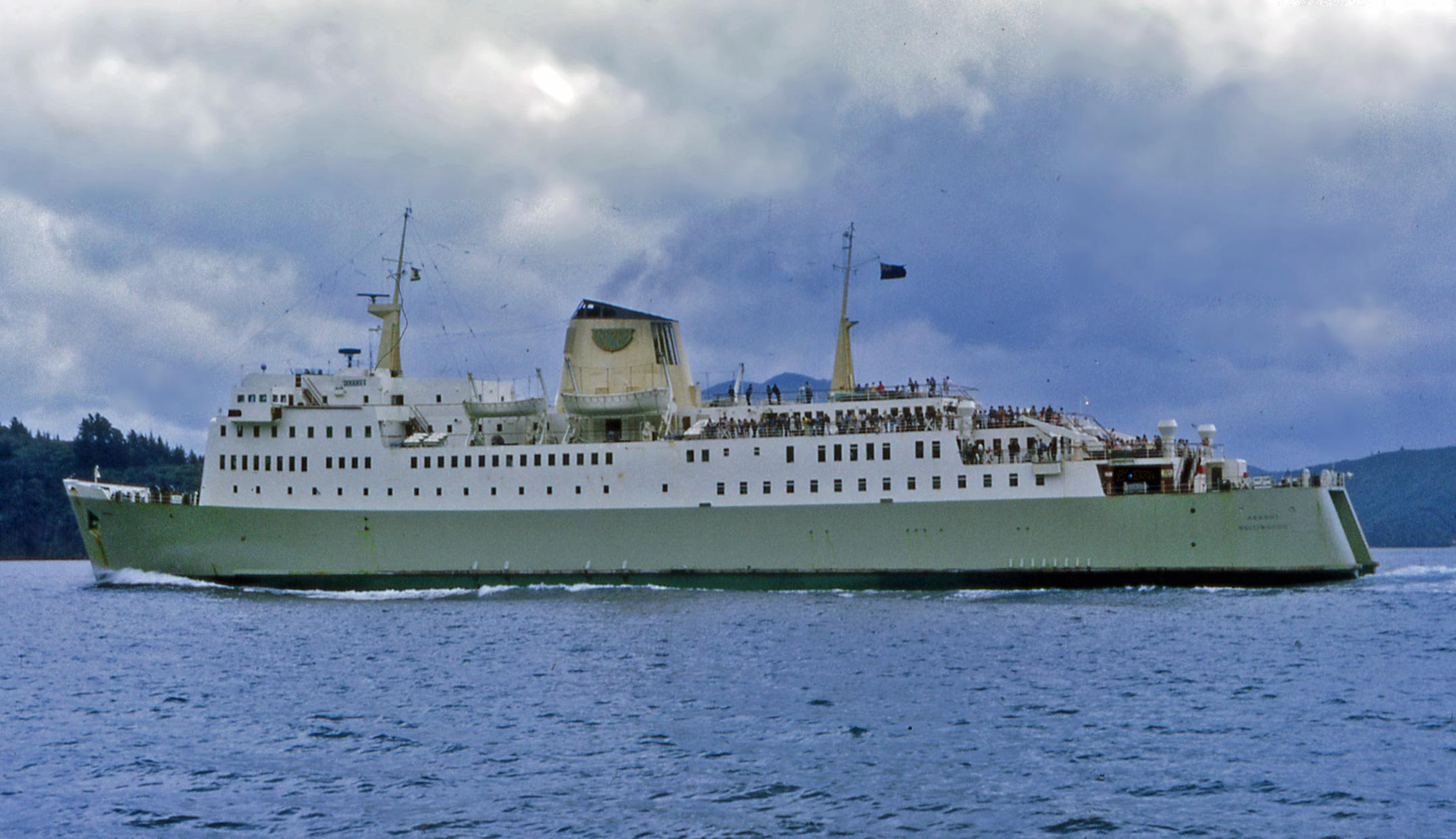 Former Cook Strait rail ferry Aranui, in Queen Charlotte Sound, New Zealand. Original file was labelled as Aramoana, the crossing's first roll on-roll off ferry. Closer inspection reveals that this vessel is Aranui, sister ship to Aramoana.